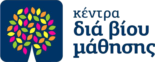 Logo INEDIVIM KDVM